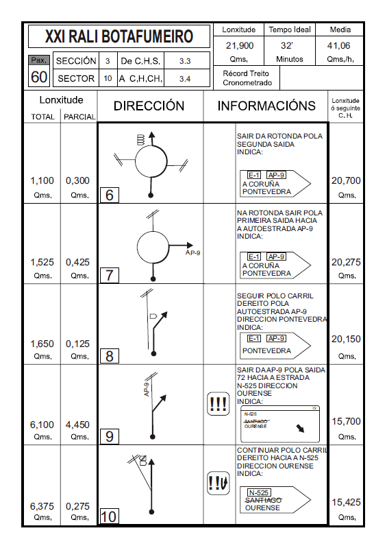 Roadbook.